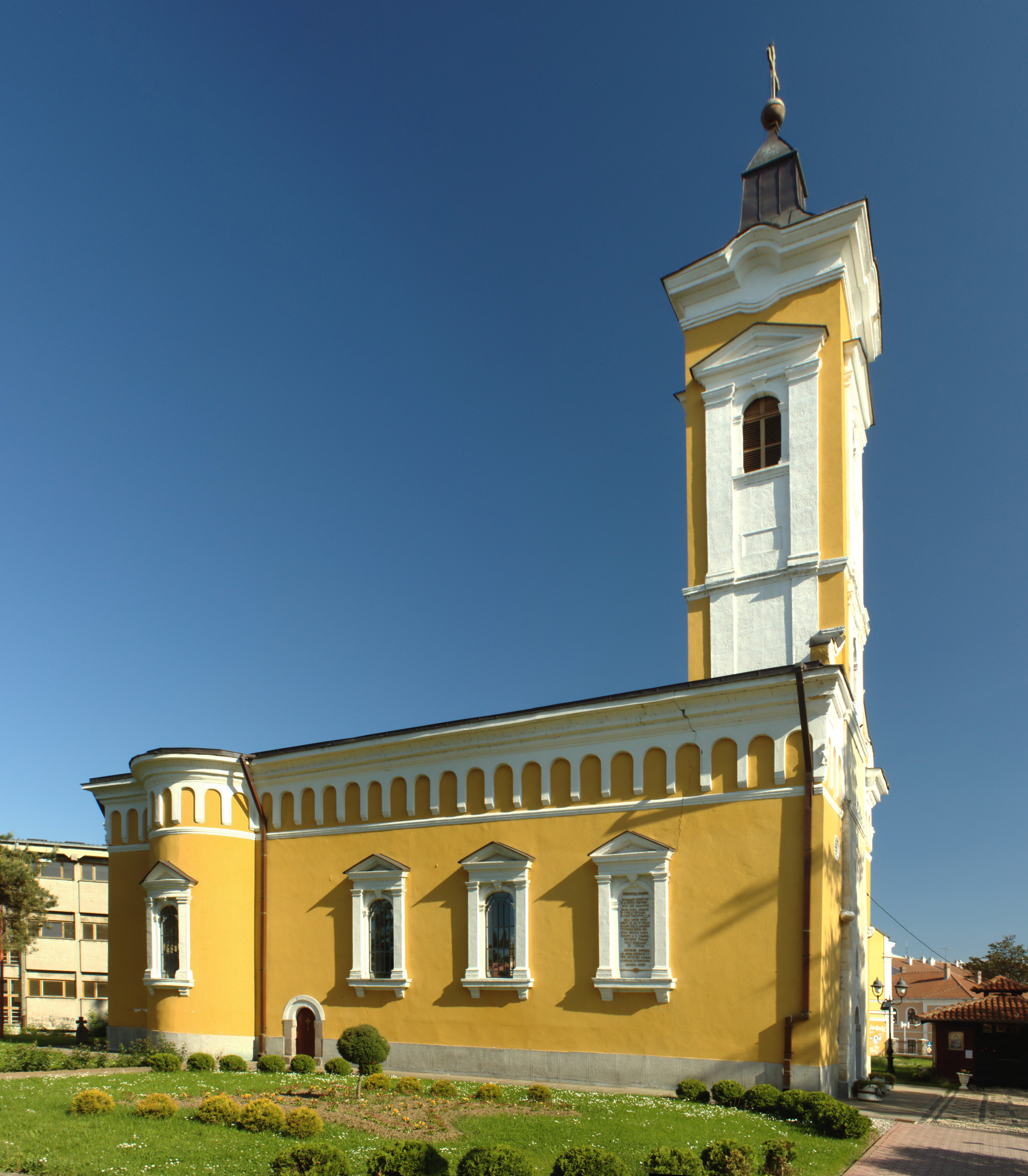 A church in Kraljevo, in the central part of the city, Serbia